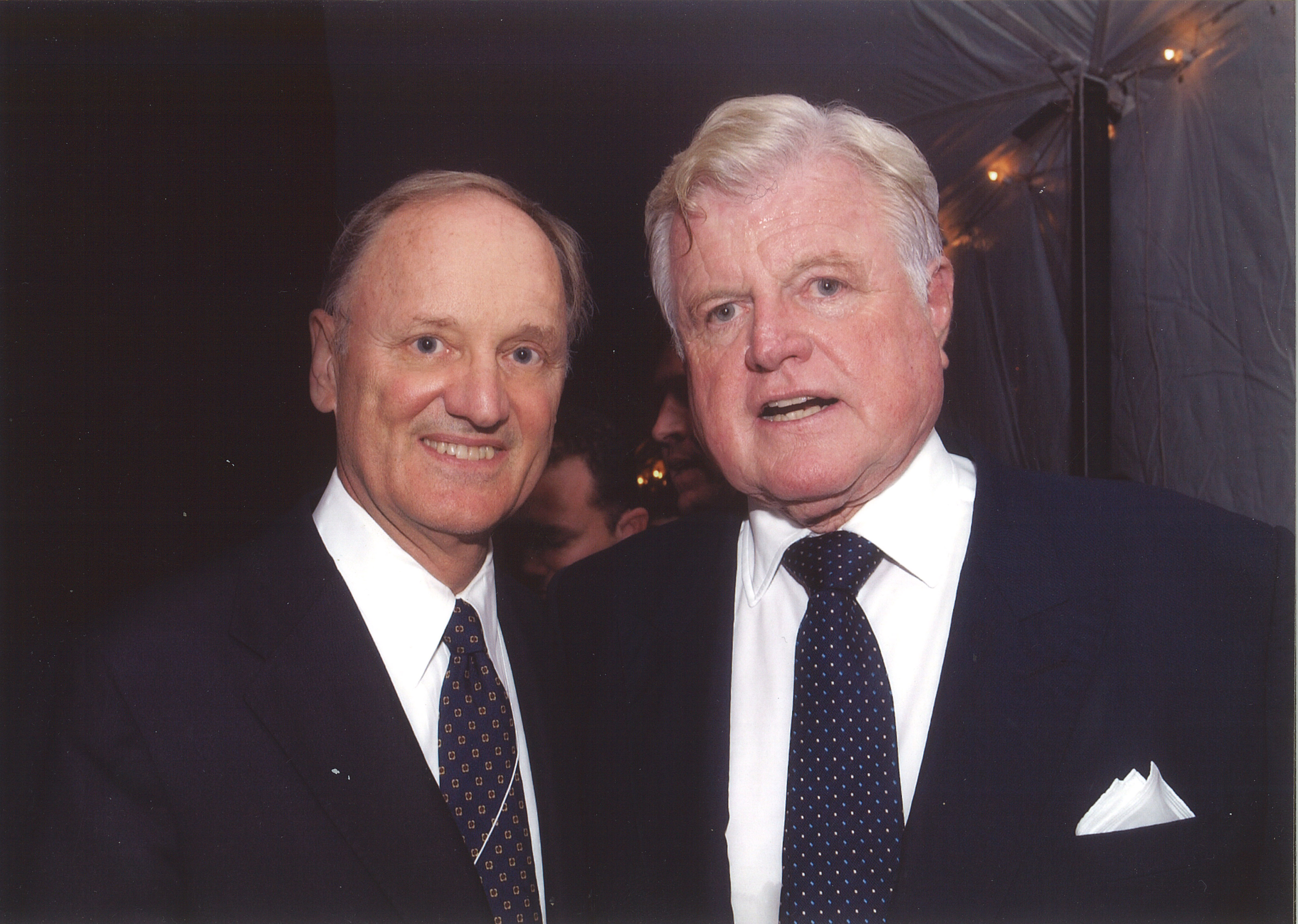 John J. Donovan and Ted Kennedy at Harvard Kennedy School of Government, during "No Child Left Behind" Discussions.